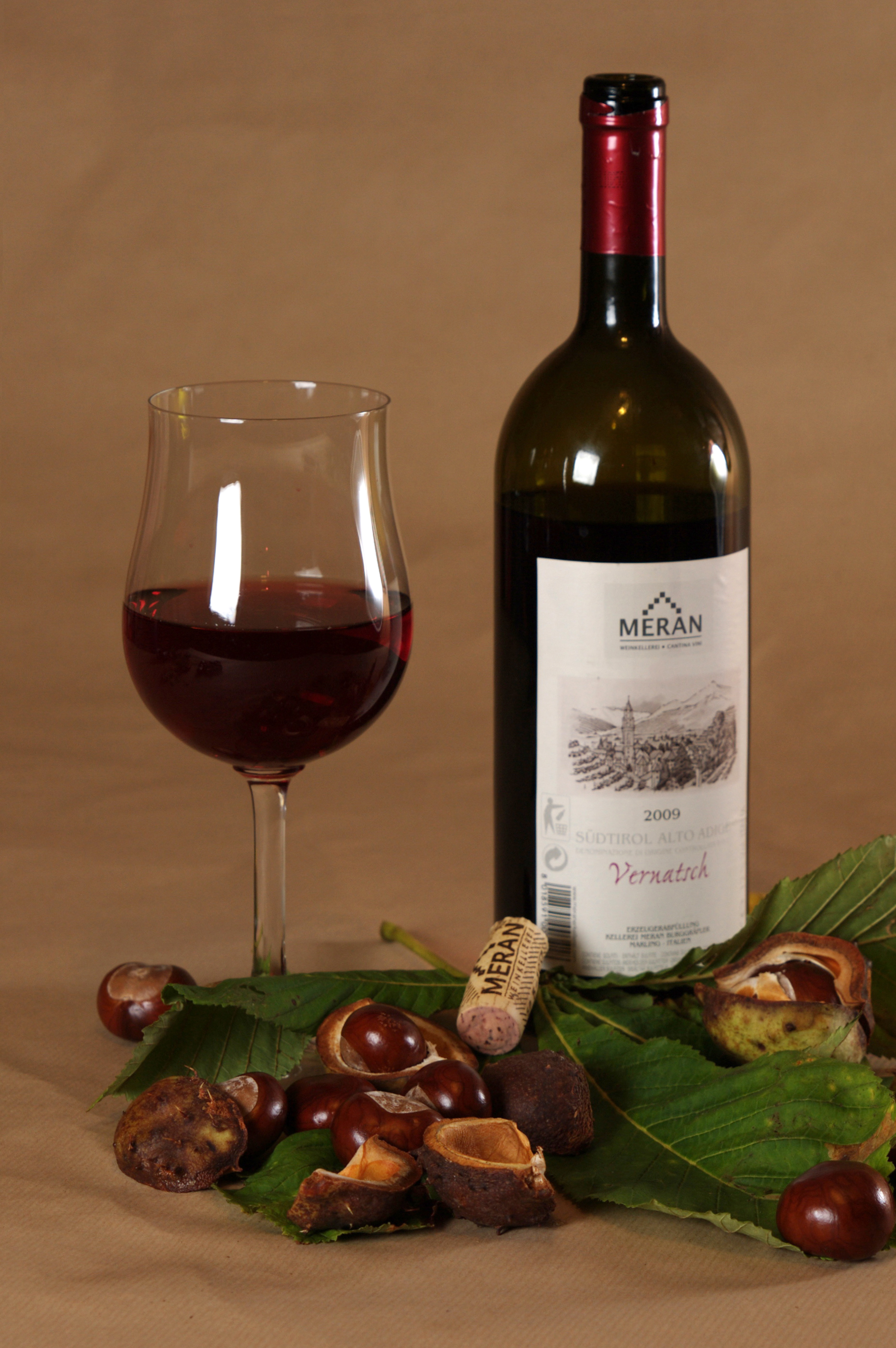 South Tirol Red Wine